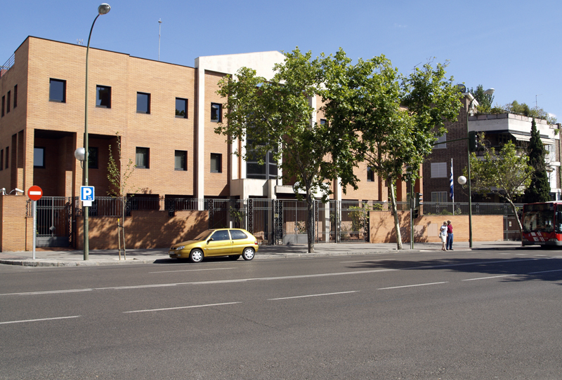 Façade of the Greek Embassy in Madrid (Spain), at 24 Avenida del Doctor Arce (street) in Chamartín district.